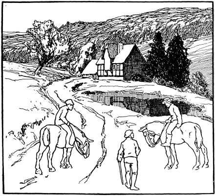 Illustration by Otto Ubbelohde to the fairy tale The Poor Miller's Boy and the Cat